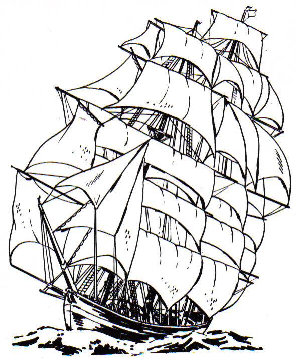 line art drawing of a clipper.